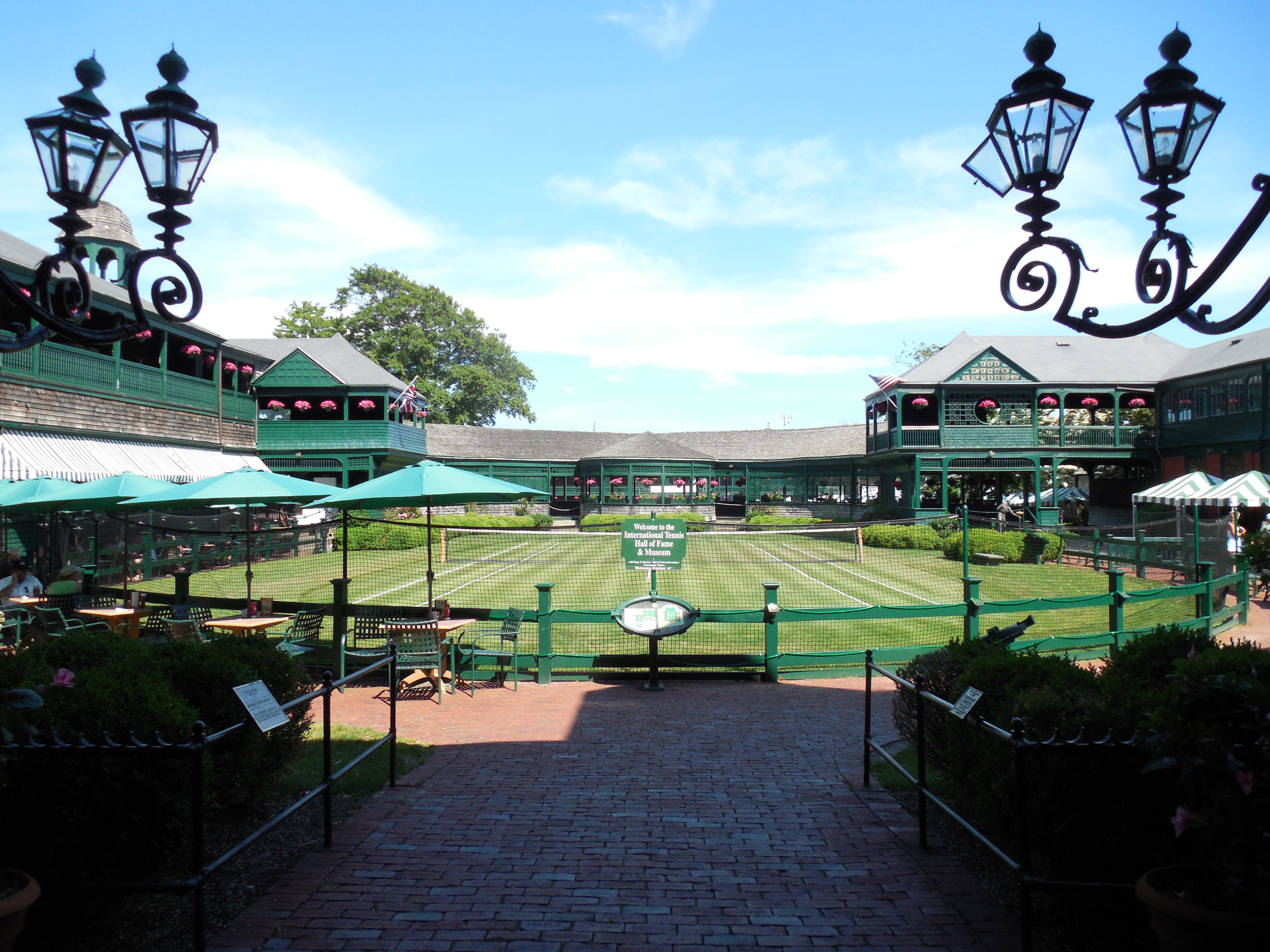 International Tennis Hall of Fame, Newport Rhode Island - 2014